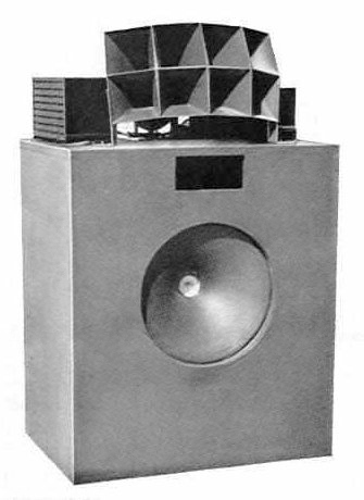 The Lansing Iconic high fidelity loudspeaker from 1937 incorporating its model 808 multicell high frequency horn (top) and model 815 cone woofer. 29 1/2 in. high, 25 1/2 in. wide, 19 1/2 in. deep. It retailed for $300 (equivalent to about $4900 in 2015) and was used in studios and by wealthy audiophiles. The multicell high frequency horn on top is powered by amplifiers in the boxes behind it. The multicellular horn was invented in 1936 by Edward C. Wente of Western Electric's Electrical Research Products. (ERPI) division as a solution to the problem of high frequency dispersion. Horns were used in speakers because they could produce more sound power than cone speakers, but at high frequencies the sound was emitted in narrow beams, so listeners located off the horn's axis couldn't hear the highs. In the multicell horn, multiple small horns pointed in different directions cover the entire listening area. The form used in the Iconic, the "Shearer horn" was developed in the early 30s for theater sound systems for talking motion pictures by John Hilliard and John Blackburn at Lansing collaborating with Douglas Shearer at MGM. Information form Anthony Young "The Lansing Sound", January 27, 2003, The Freeman blog